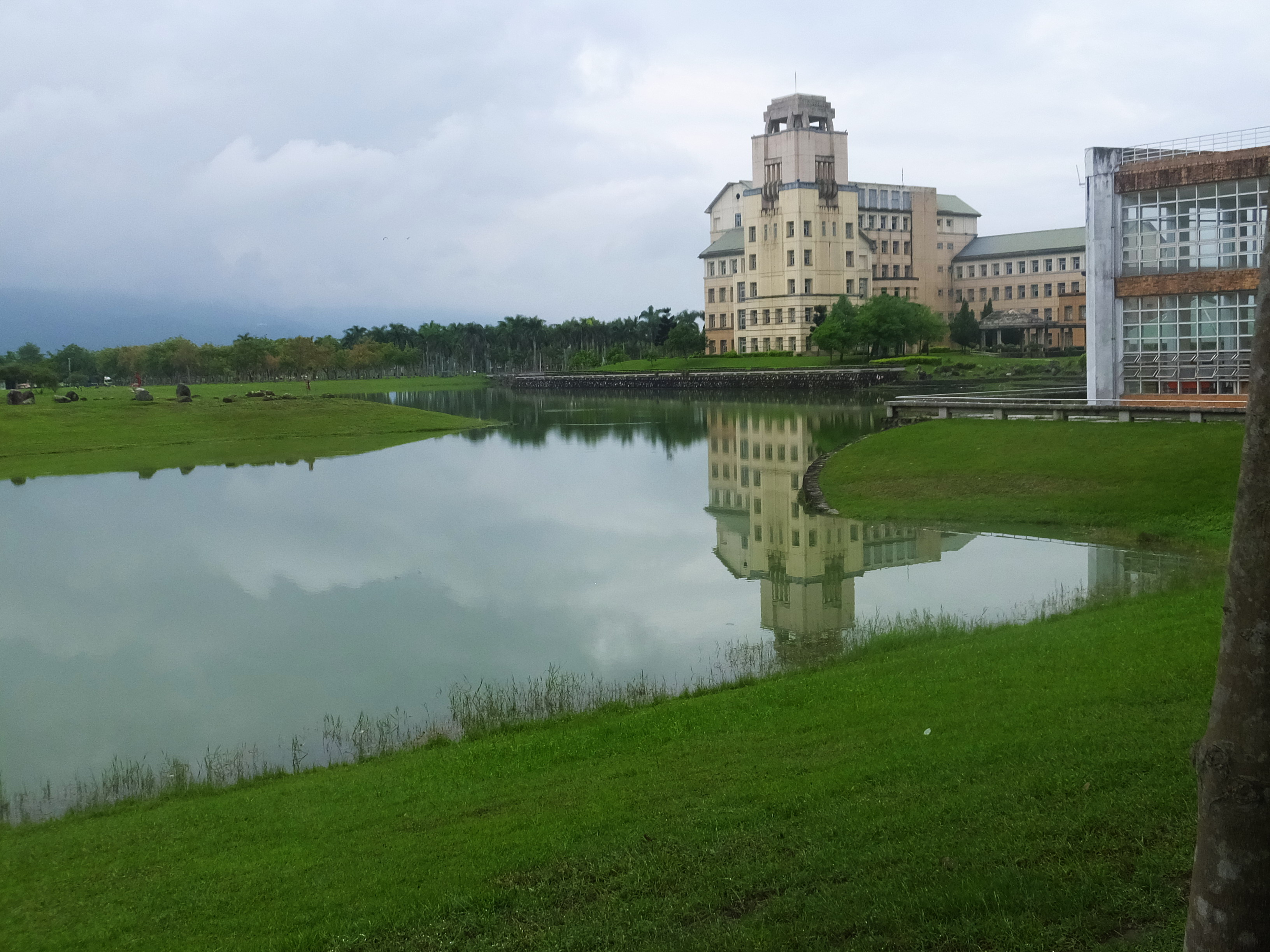 東華大學 Don Hua University